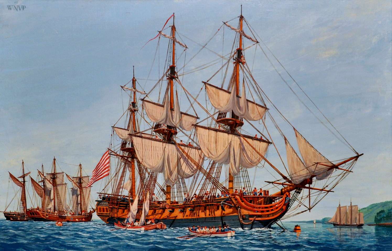 WASHINGTON (Sept. 25, 2009) A Revolutionary War painting depicting the Continental Navy frigate Confederacy is displayed at the Navy Art Gallery at the Washington Navy Yard. The Navy Art Gallery has a collection of more than 15,000 paintings, prints, drawings and sculptures depicting naval ships, personnel and combat actions from all eras of U.S. naval history. (U.S. Navy photo by Mass Communication Specialist 2nd Class Kenneth G. Takada/Released)